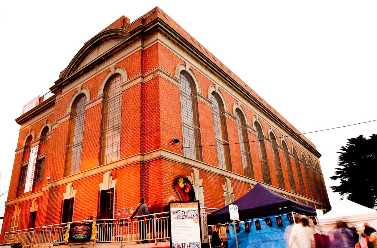 The Substation Arts Centre, Newport, Victoria